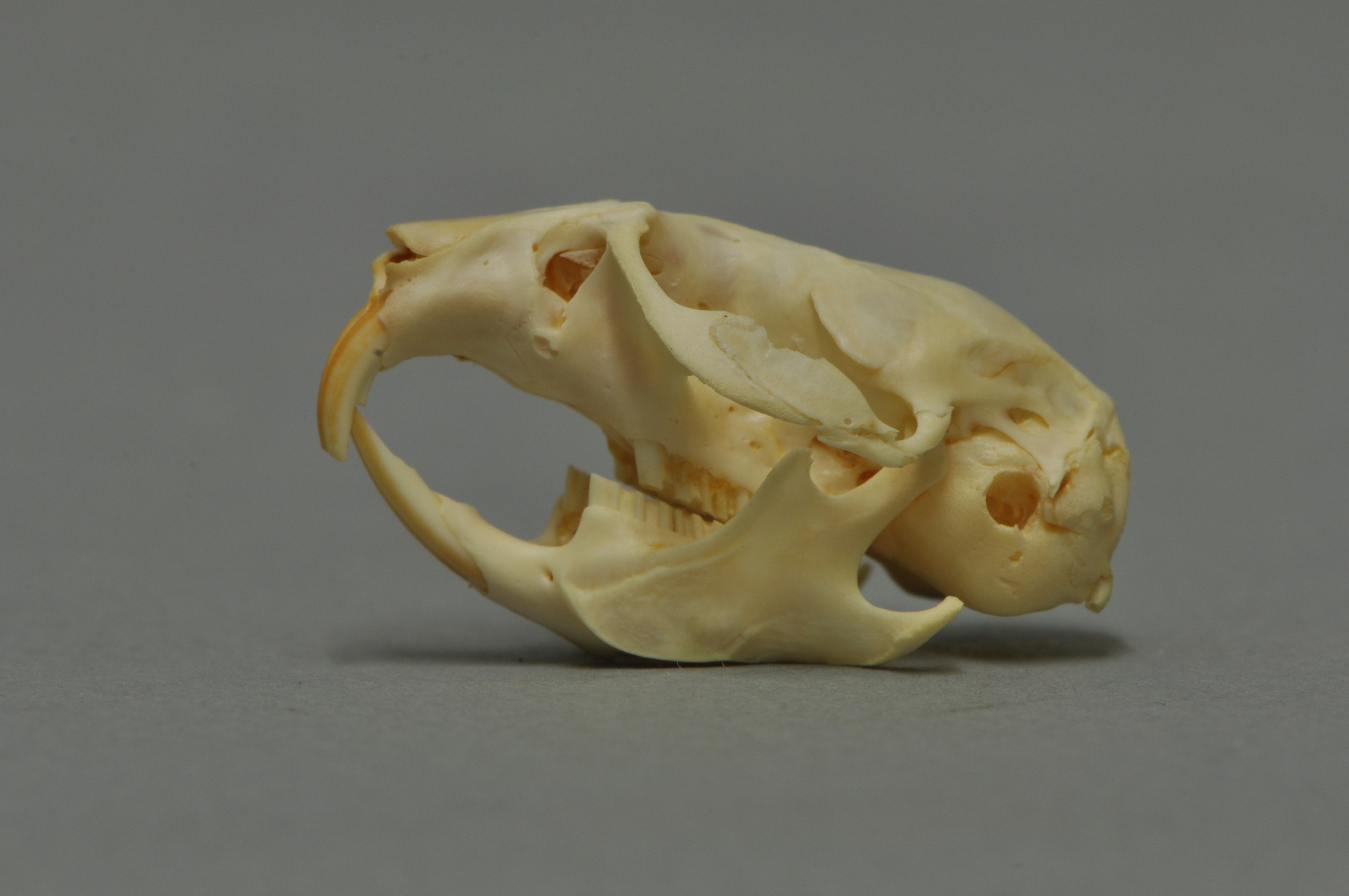 Norway lemming Lemmus lemmus , skull, Coll. Museum Wiesbaden